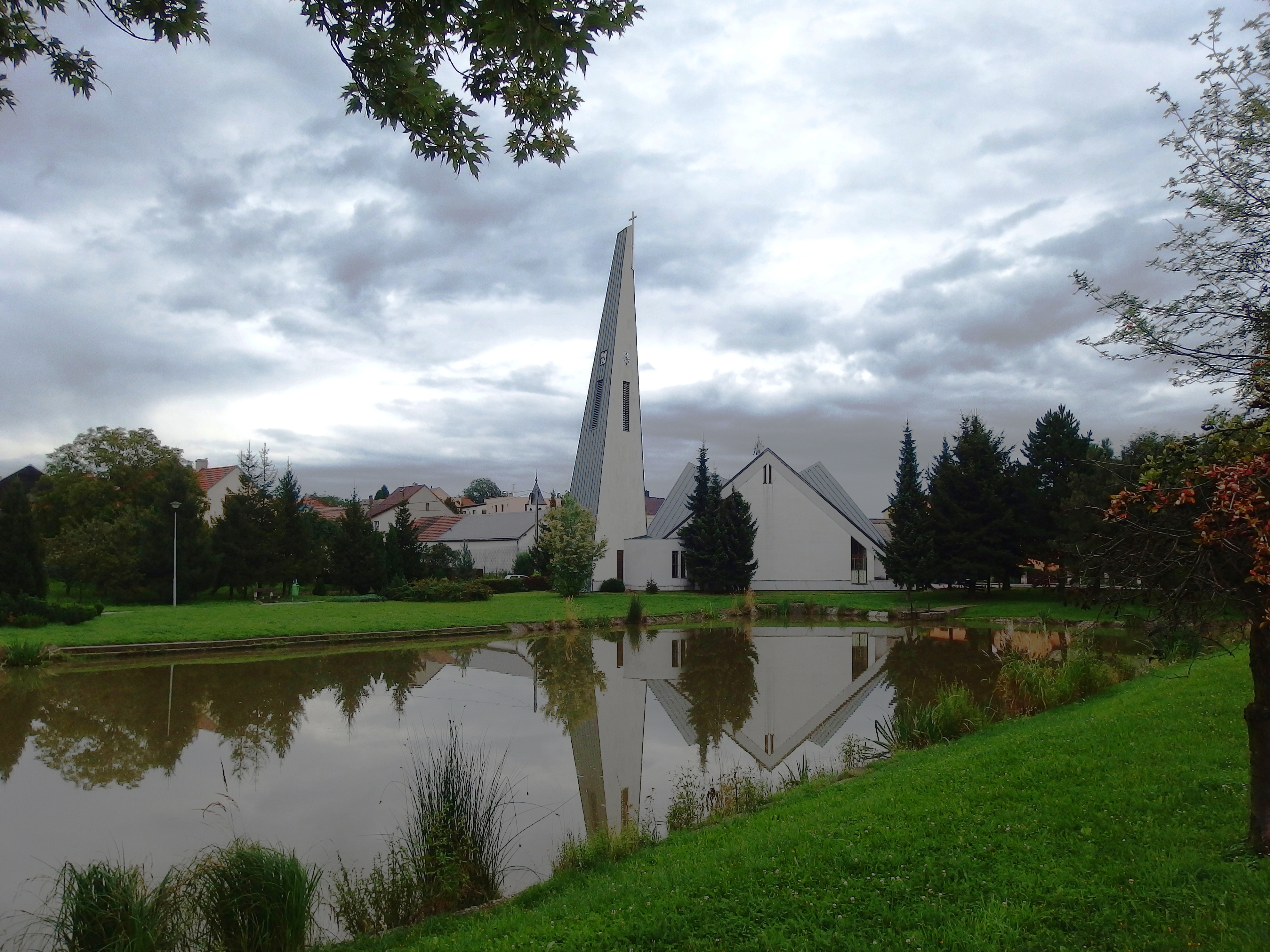 Služovice, Opava District, Czech Republic.